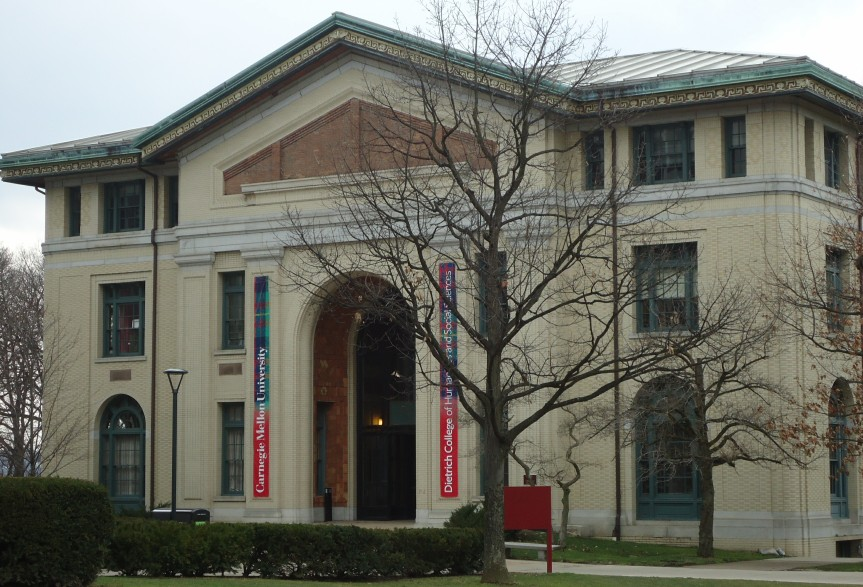 Building on the campus of Carnegie-Mellon University in Pittsburgh, Pennsylvania.